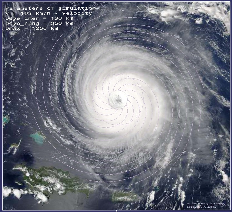 Exact simulation of the Coriolis effect on a mathematical analytical basis